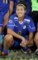 Jesse Shugg with the Philippines women's national football team in 2013.